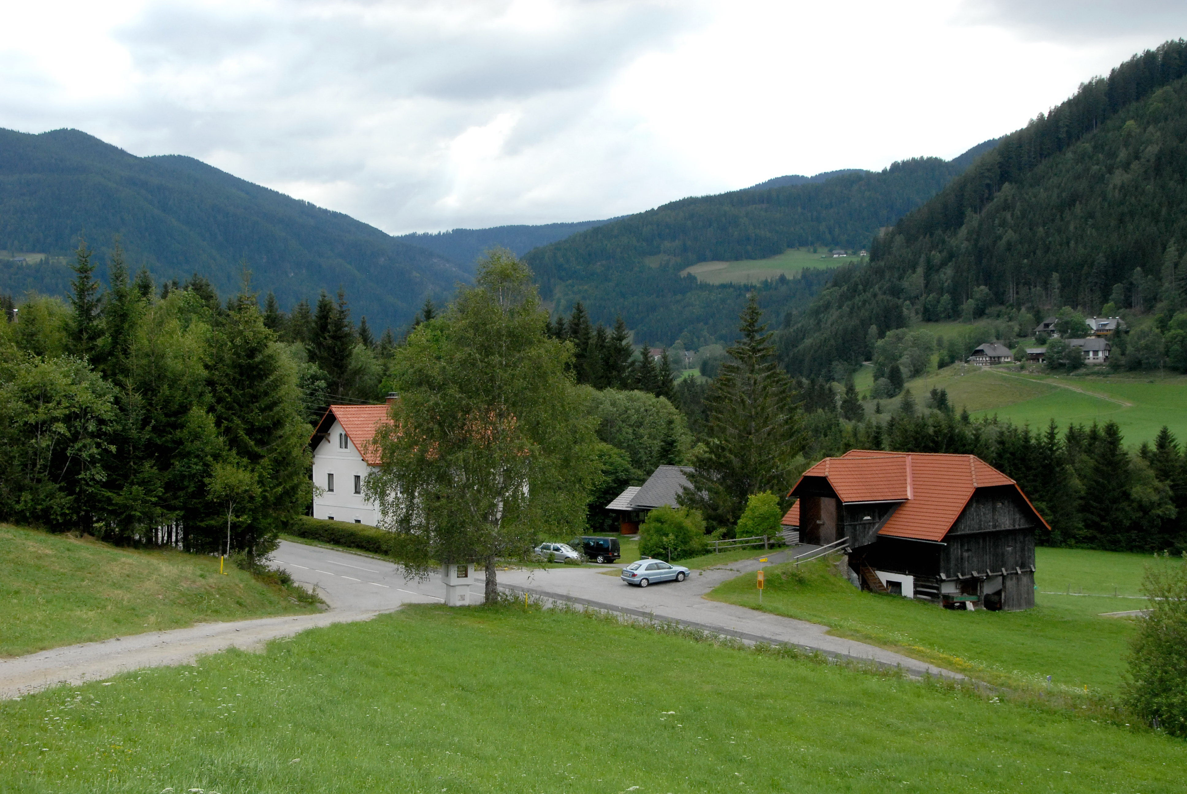 Metnitz valley, western part, district of Saint Veit on the Glan, Carinthia, Austria